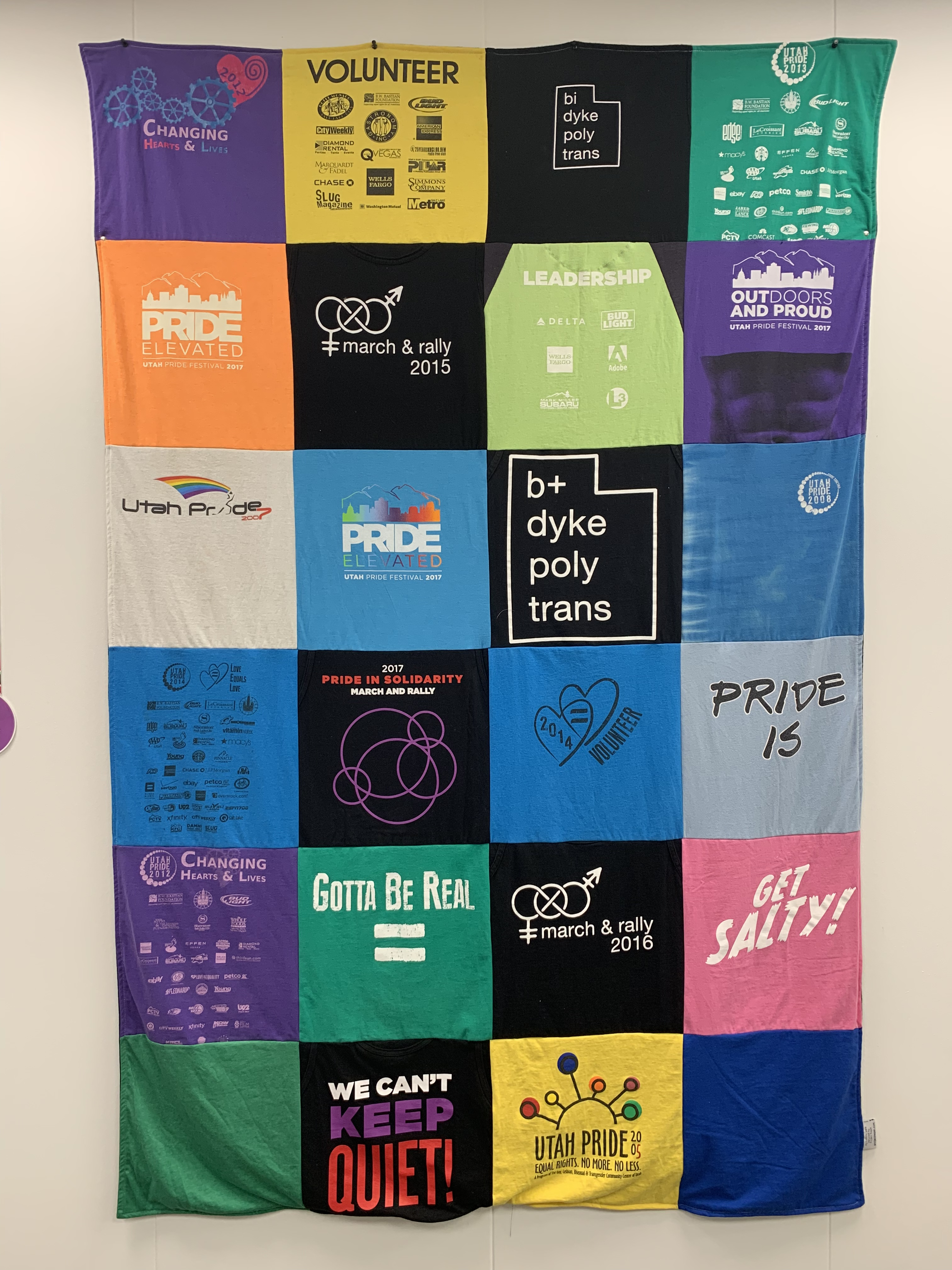 This quilt is a collection of Utah Pride Festivals as well as a few events that show the logos and art used for the associated events.